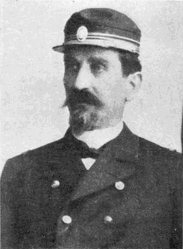 Božidar Đaja, ship captain from Dubrovnik, Croatia